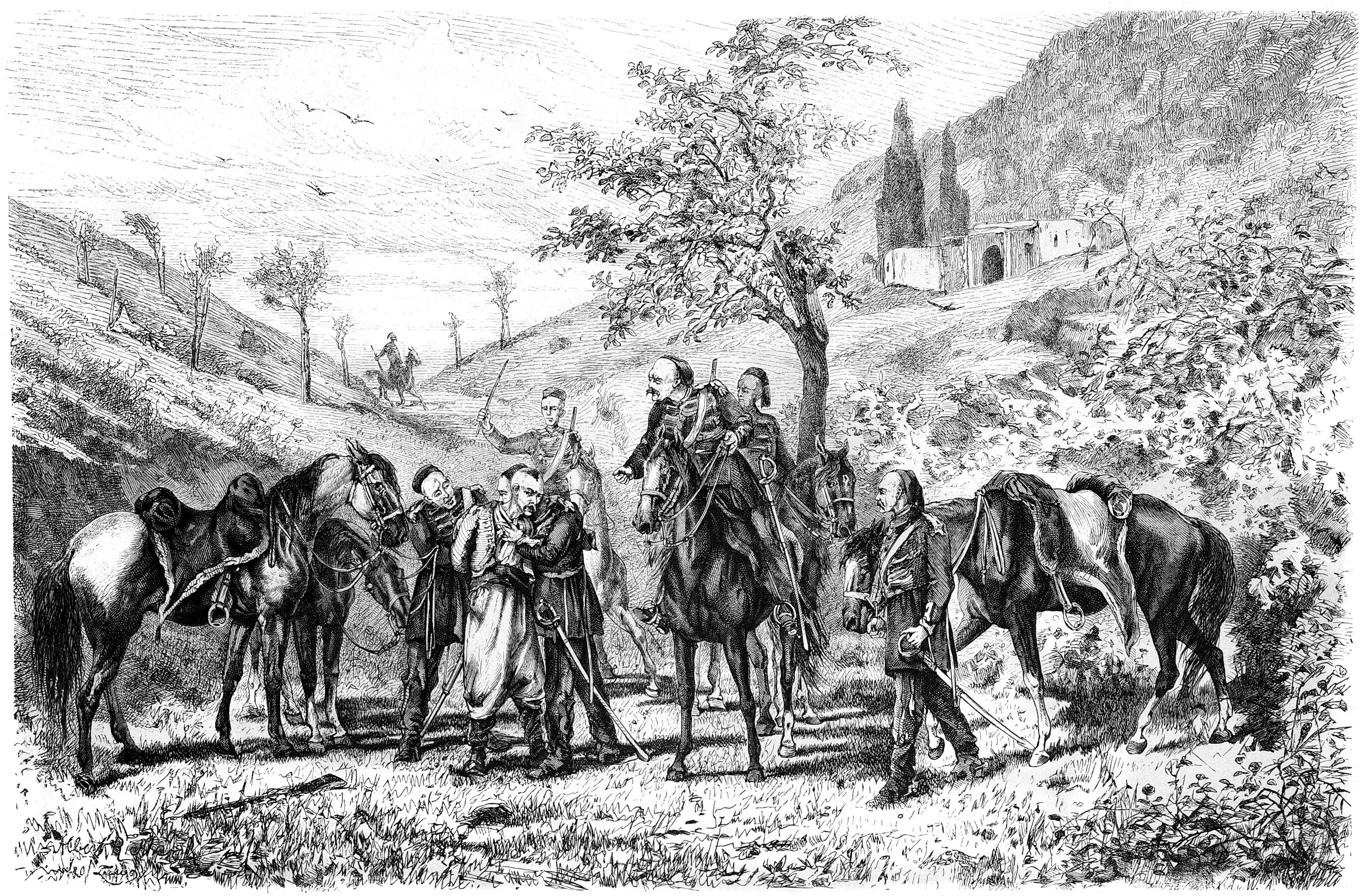 caption: "Eine Erinnerung aus der Belagerung von Plewna. Nach einer Skizze vom Kriegsschauplatze componirt von Albert Richter in Dresden."